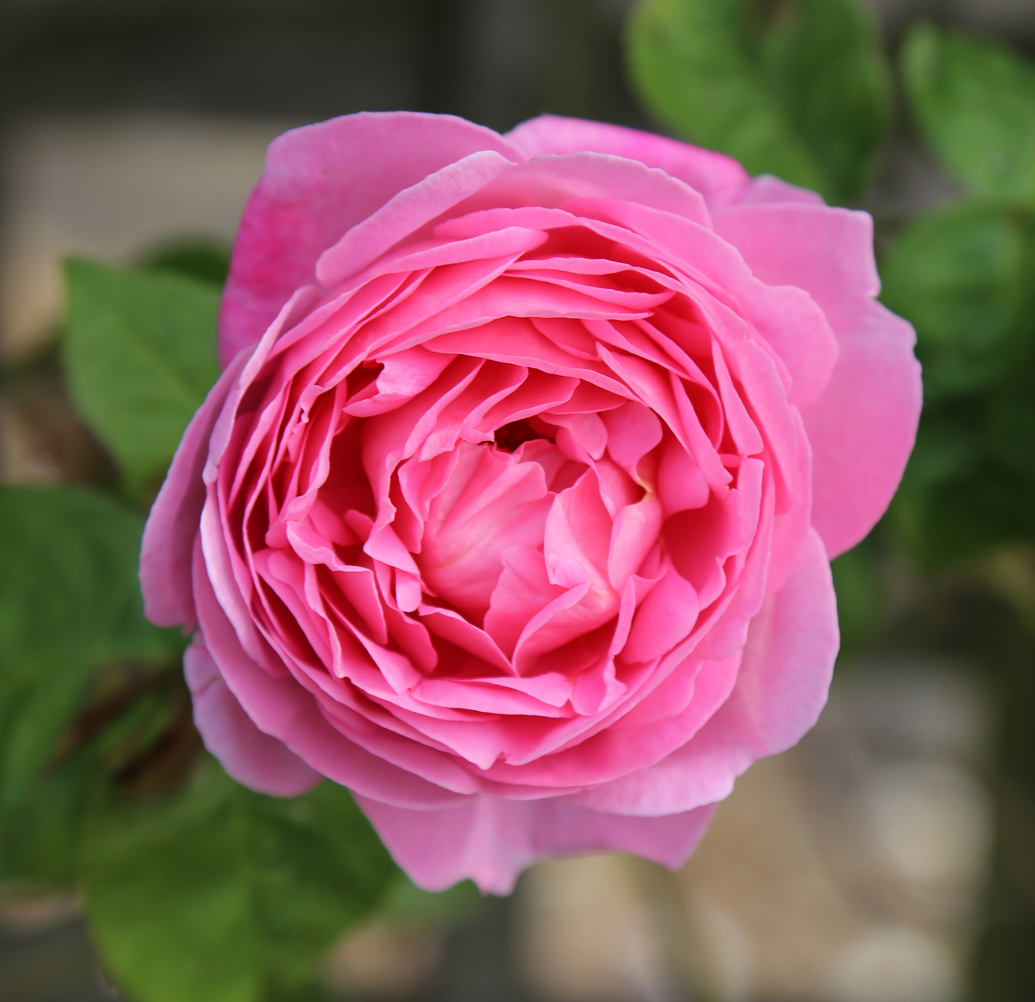 Pink rose at the cemetery of Theydon Bois, Essex, England